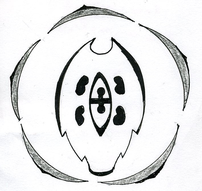 Laurus floral diagram